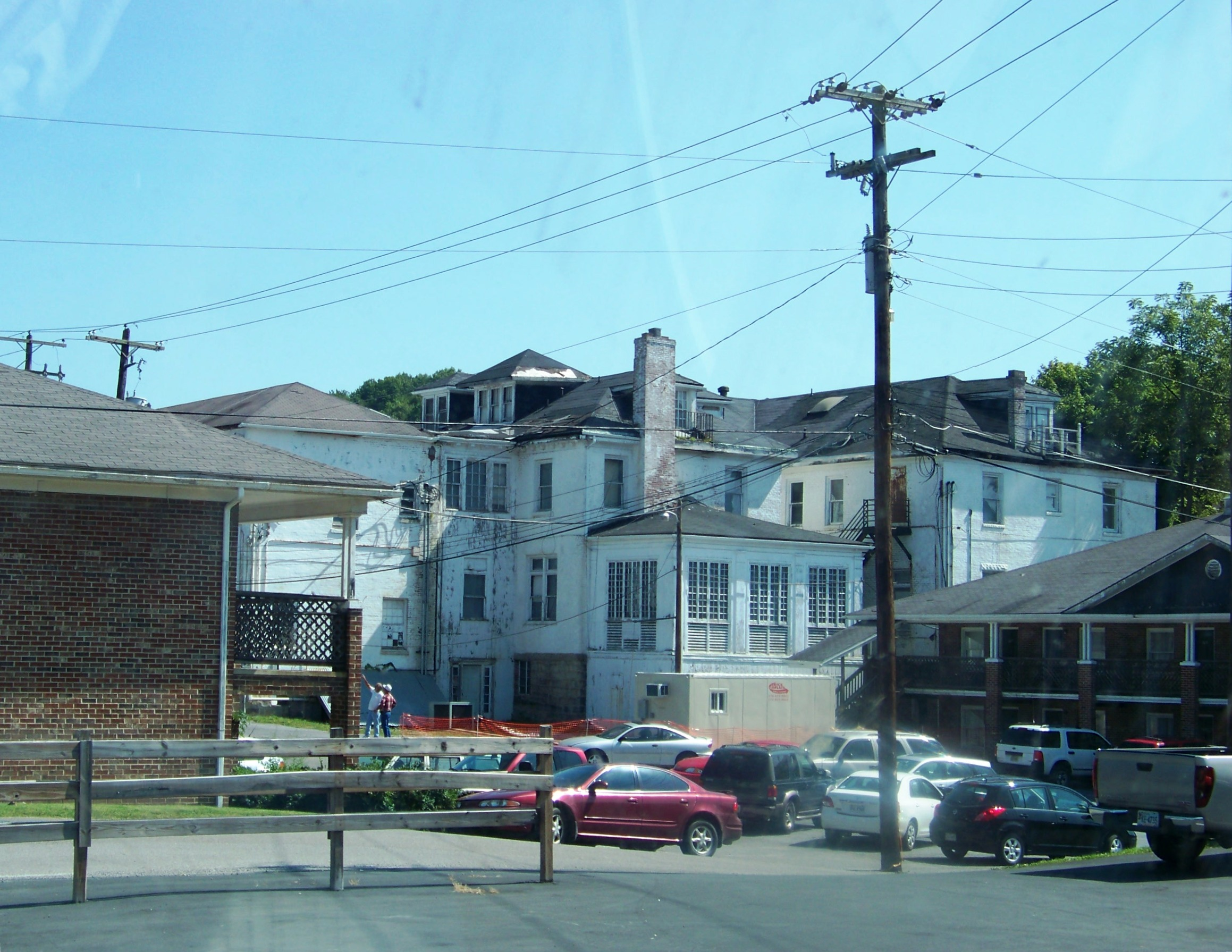 Large old building in Wise